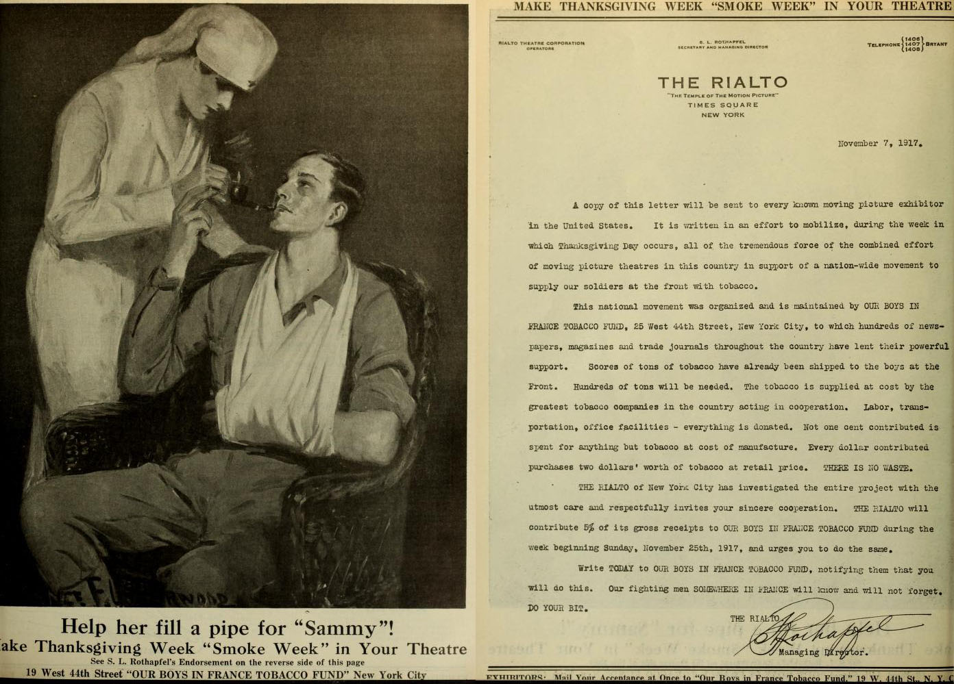 Advertisement in The Moving Picture World for Smoke Week, with letter signed by Samuel "Roxy" Rothafel.